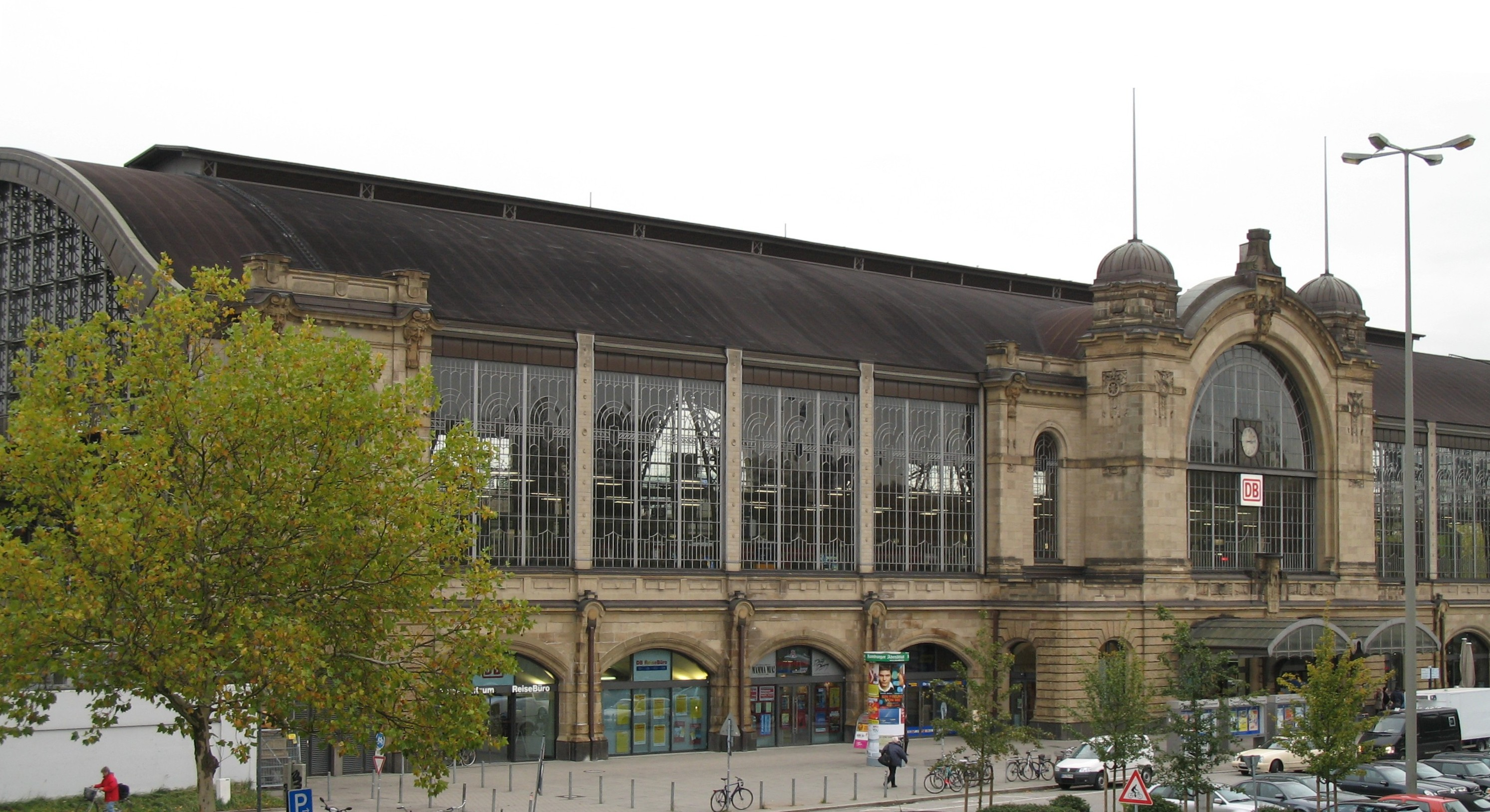 Station Hamburg-Dammtor, backside of the building